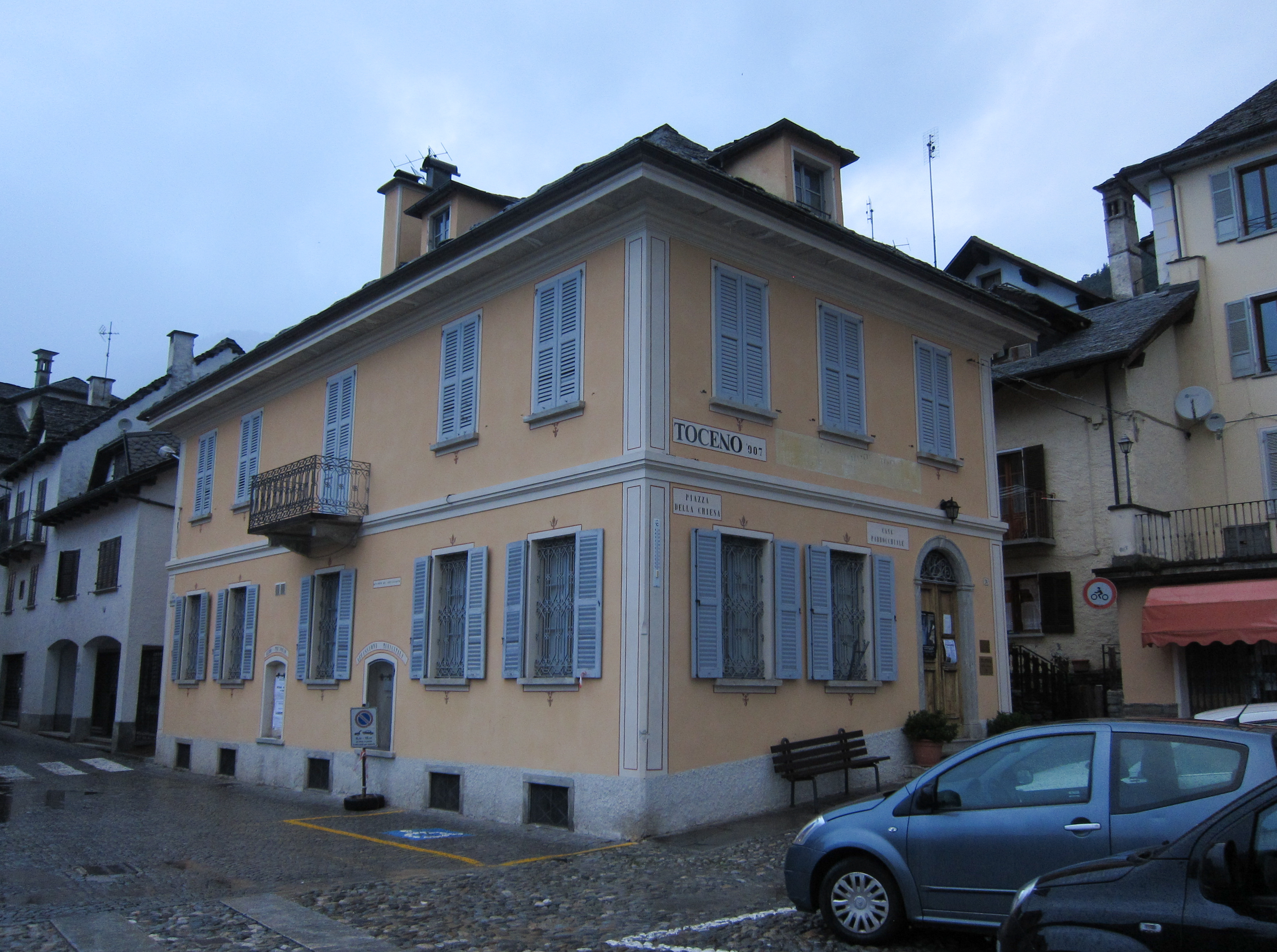 The manse of "Sant’Antonio Abate church" in the village square of Toceno. Located in Toceno (VCO) in region Piedmont, in Italy. - 2018-08-31